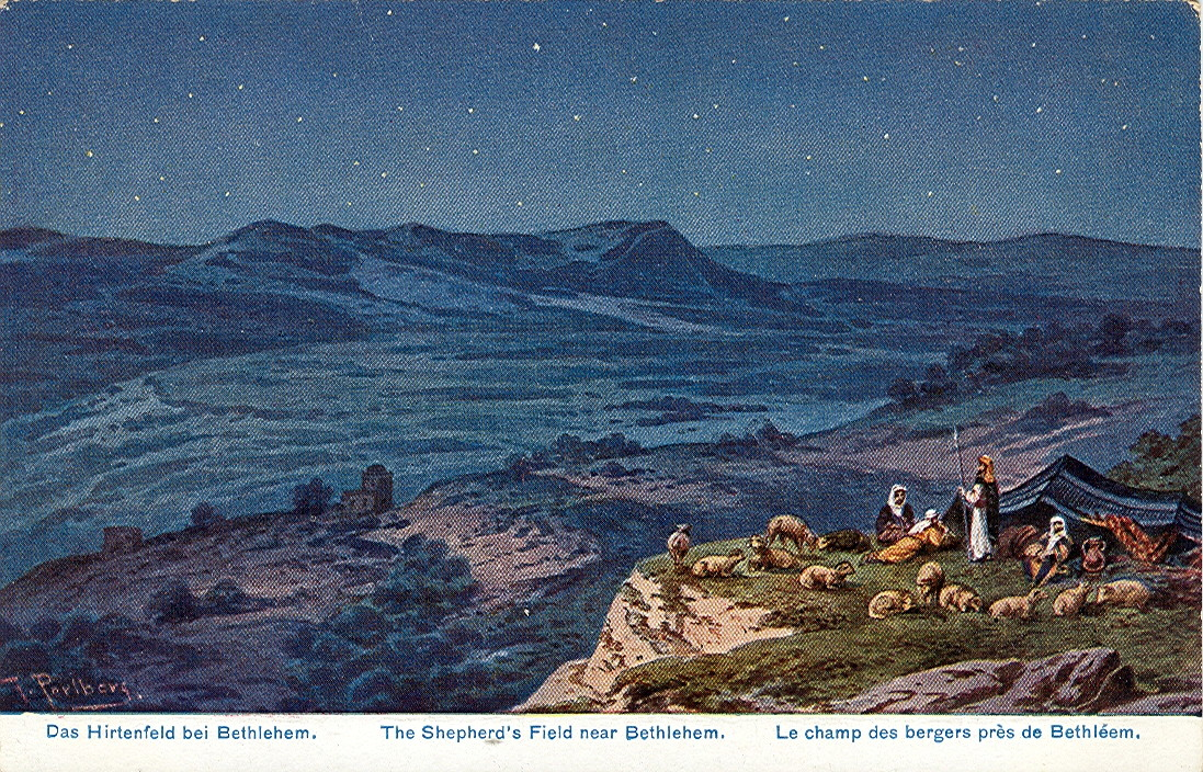 Postcard, undated ( ca.1914 ). Title: "The shepherd´s Field near Bethlehem".